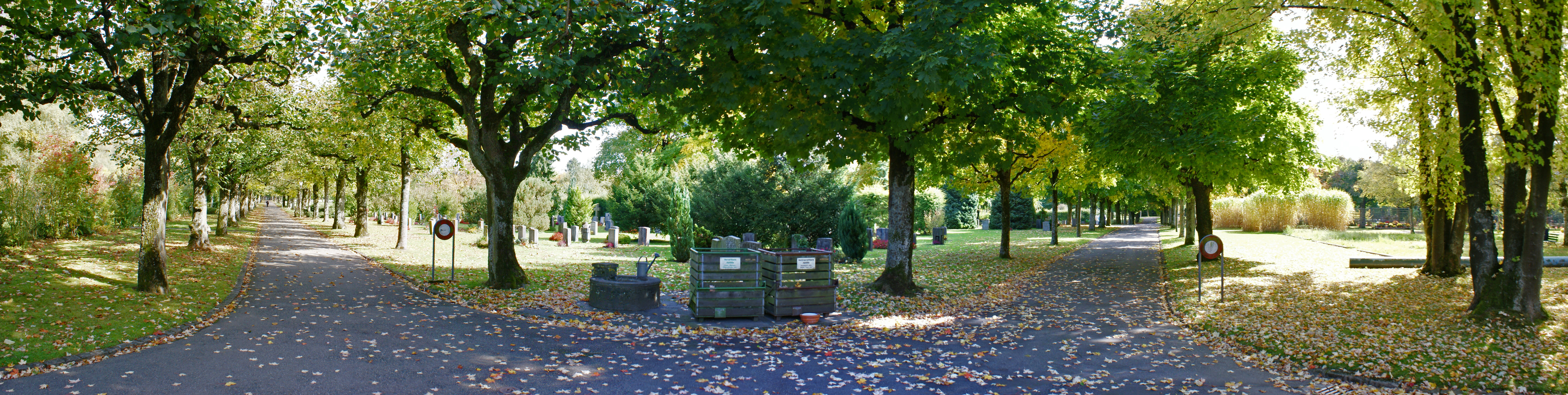 Bremgarten cemetery, Berne, Switzerland.